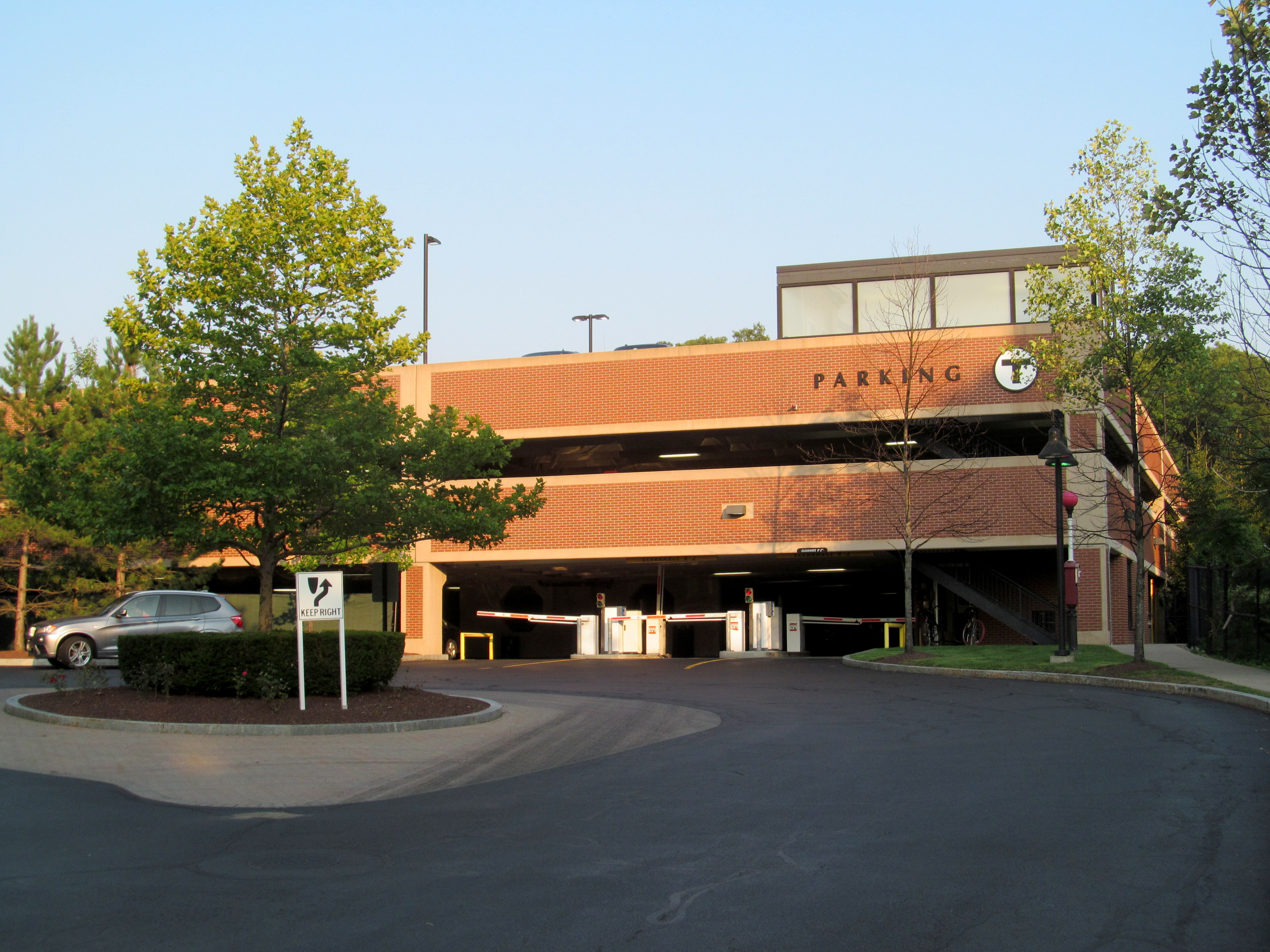 Parking garage at Woodland station in September 2015